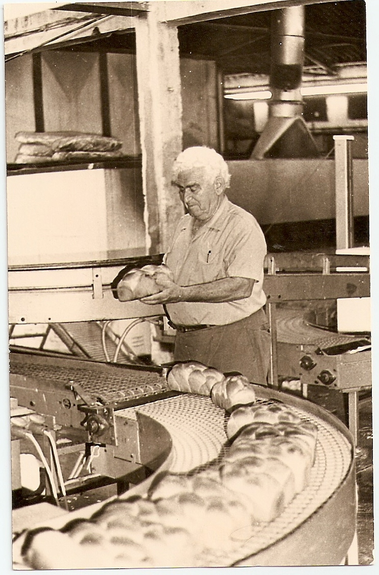 Industry in Israel